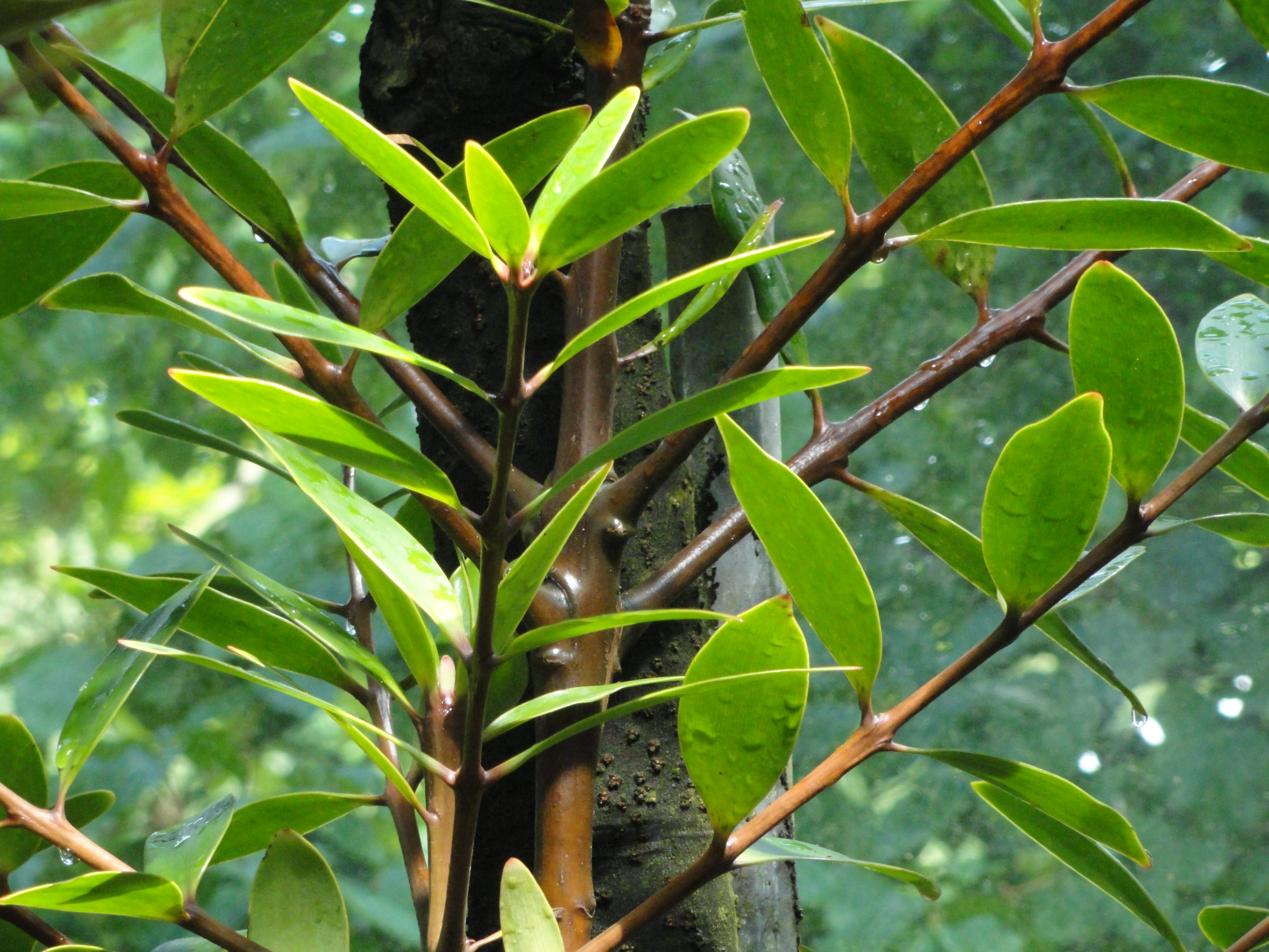 Botanical specimen in the Palmengarten, Frankfurt am Main, Germany.